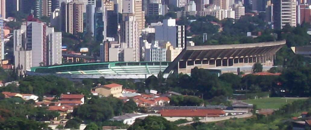 Elevated view from a building in Campinas, Brazil